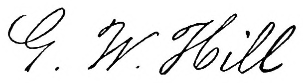 Signature of George William Hill from Collected works (1905)